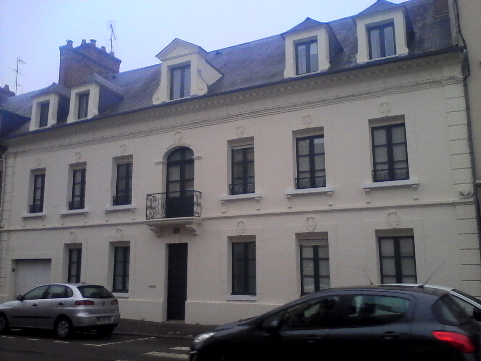 Hotel particulier du XIX e siècle à Evreux